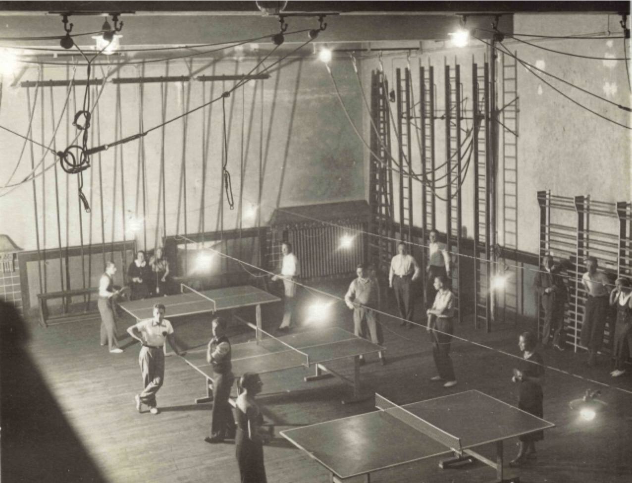 Picture of 28 Sep 1928: table-tennis in gym of Helmholtzschule, Frankfurt am Main, Hesse, Germany